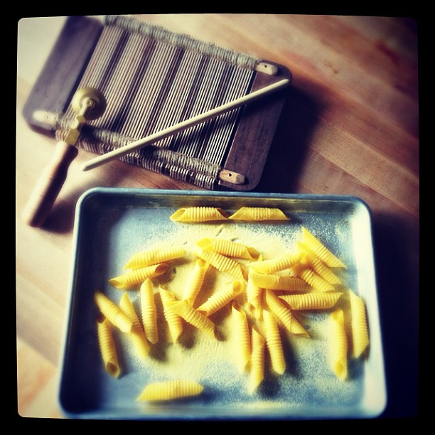 Garganelli